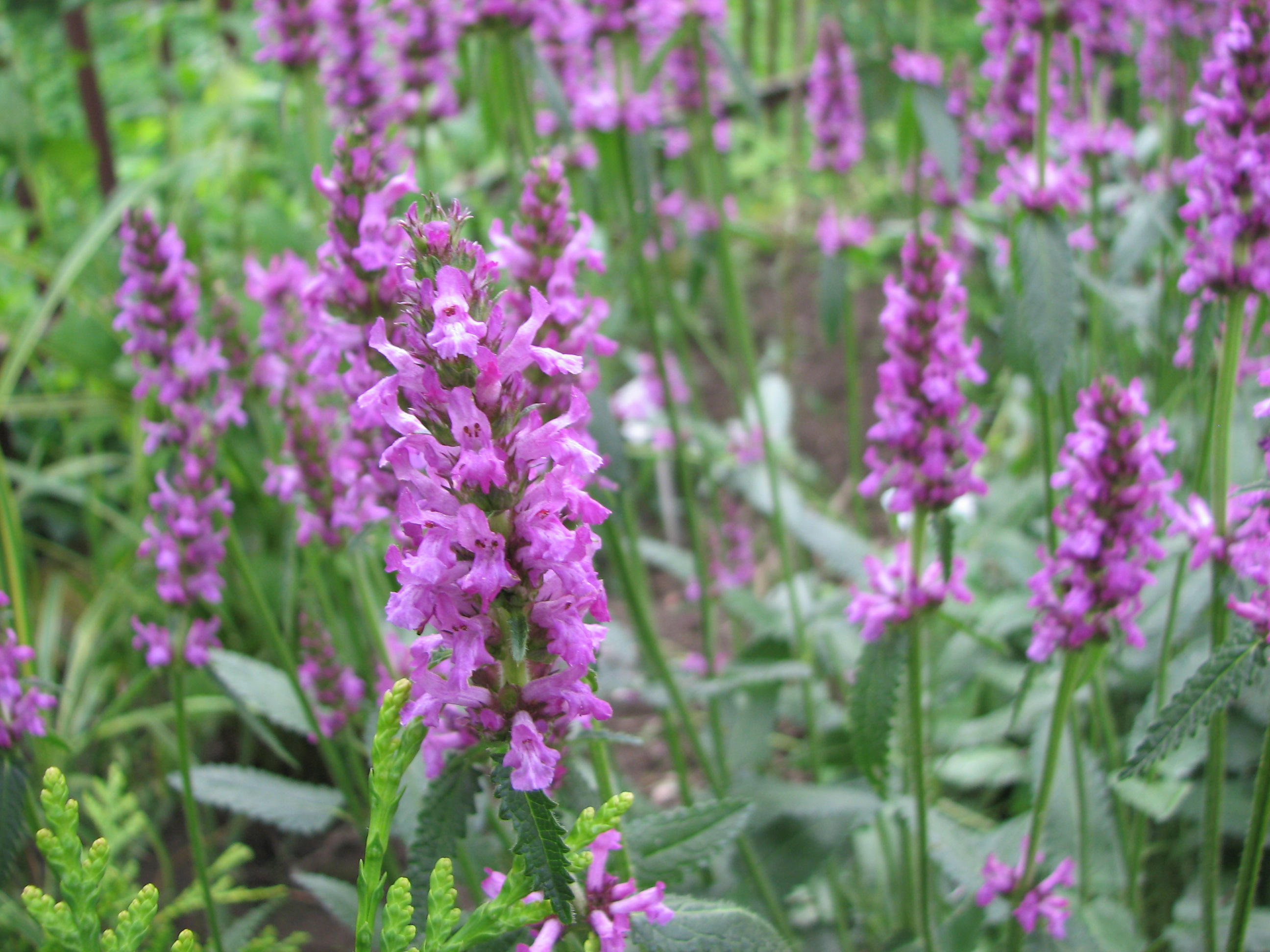 Betonica officinalis